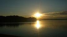 Gunter's Lake in Northern Alabama. Taken on a motorcycle ride.